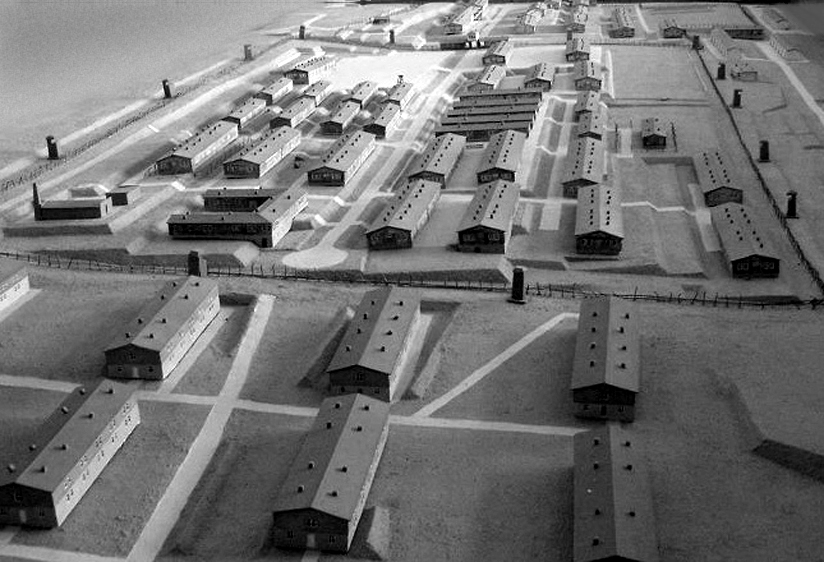 concentration camp Gross-Rosen (black and white)